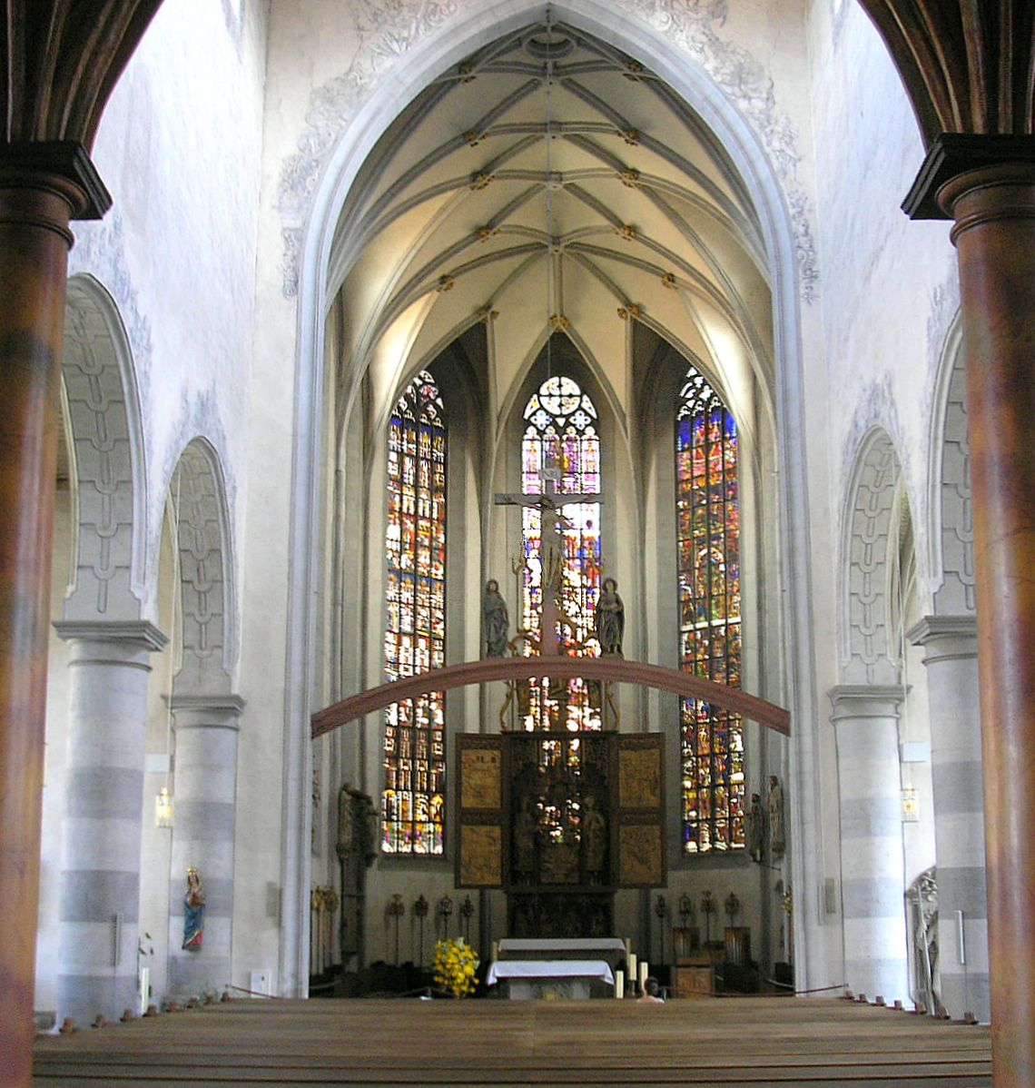 Münnerstadt (Landkreis Bad Kissingen, Lower Franconia, Germany). Parish church Mary Magdalene. Interior, looking east